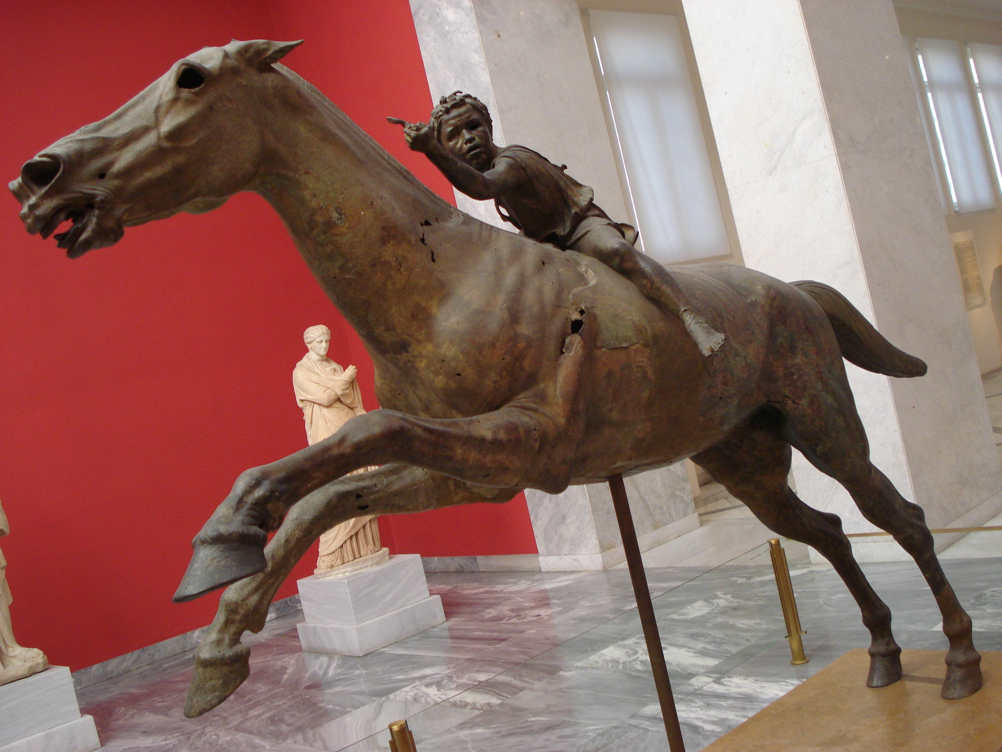 Artemision jockey (Alexander?), 08.09.2008.